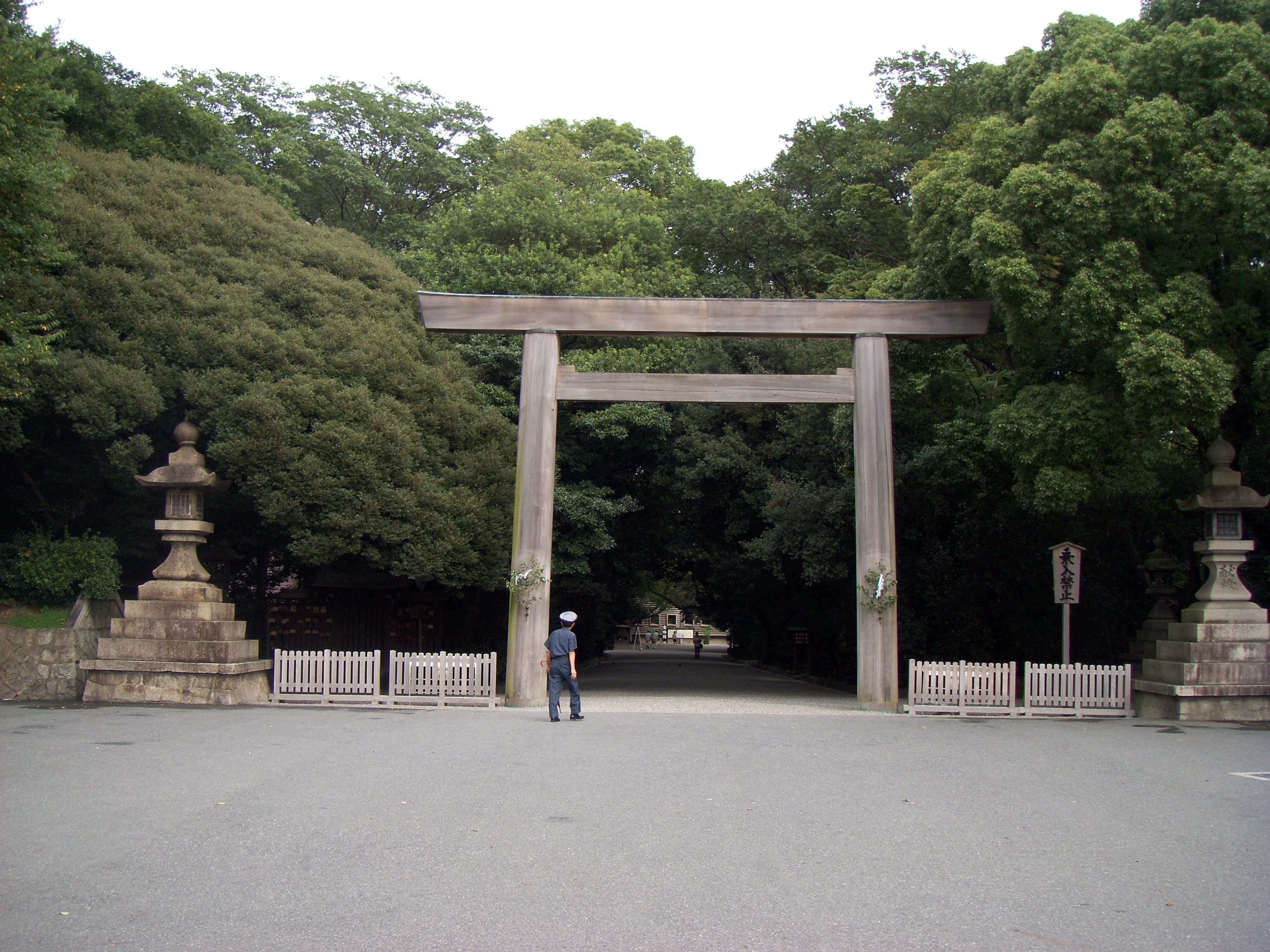 The torii in front of Atsuta Shrine in Nagoya, Japan.